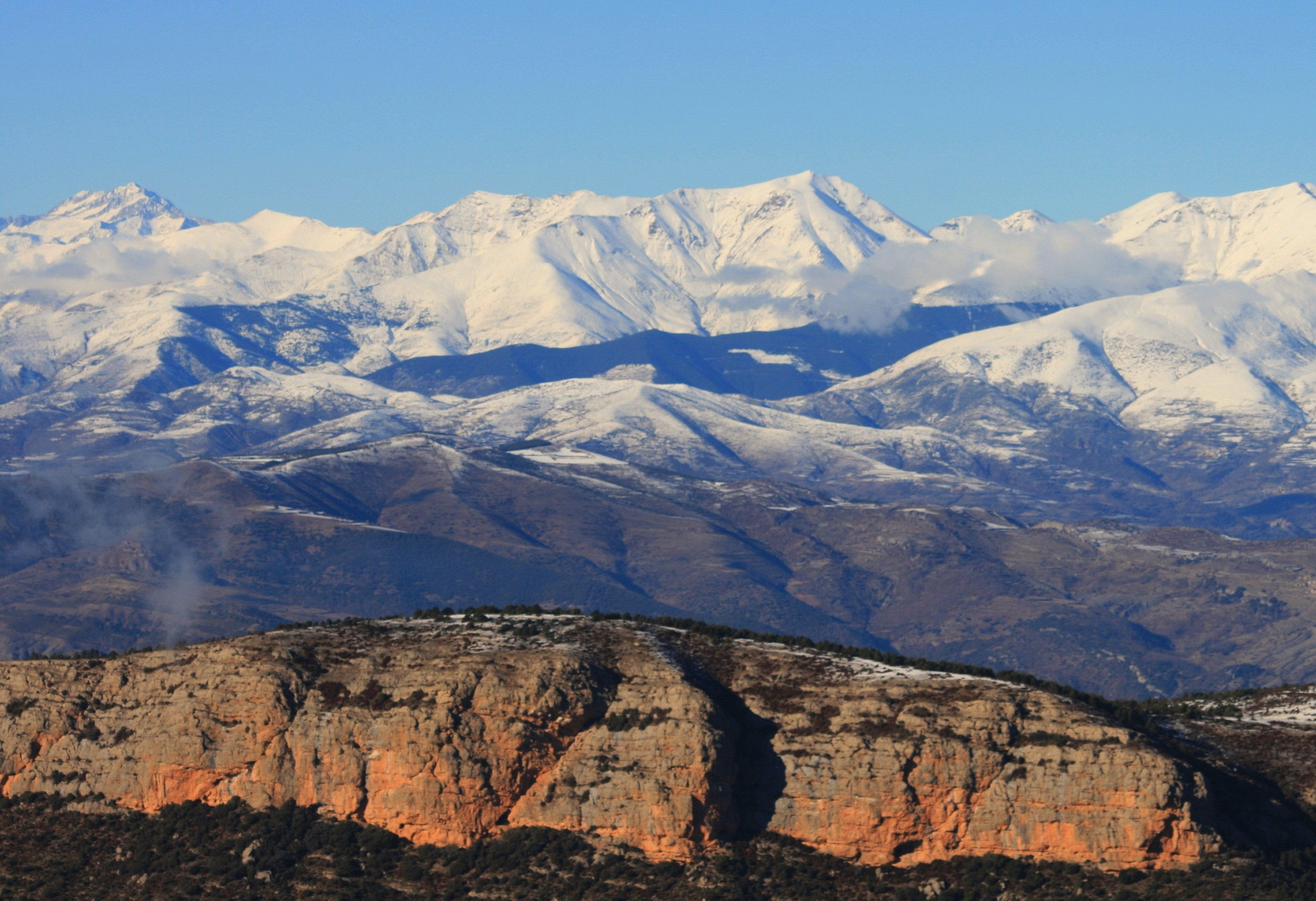 Panorama of catalan Pyrenees.